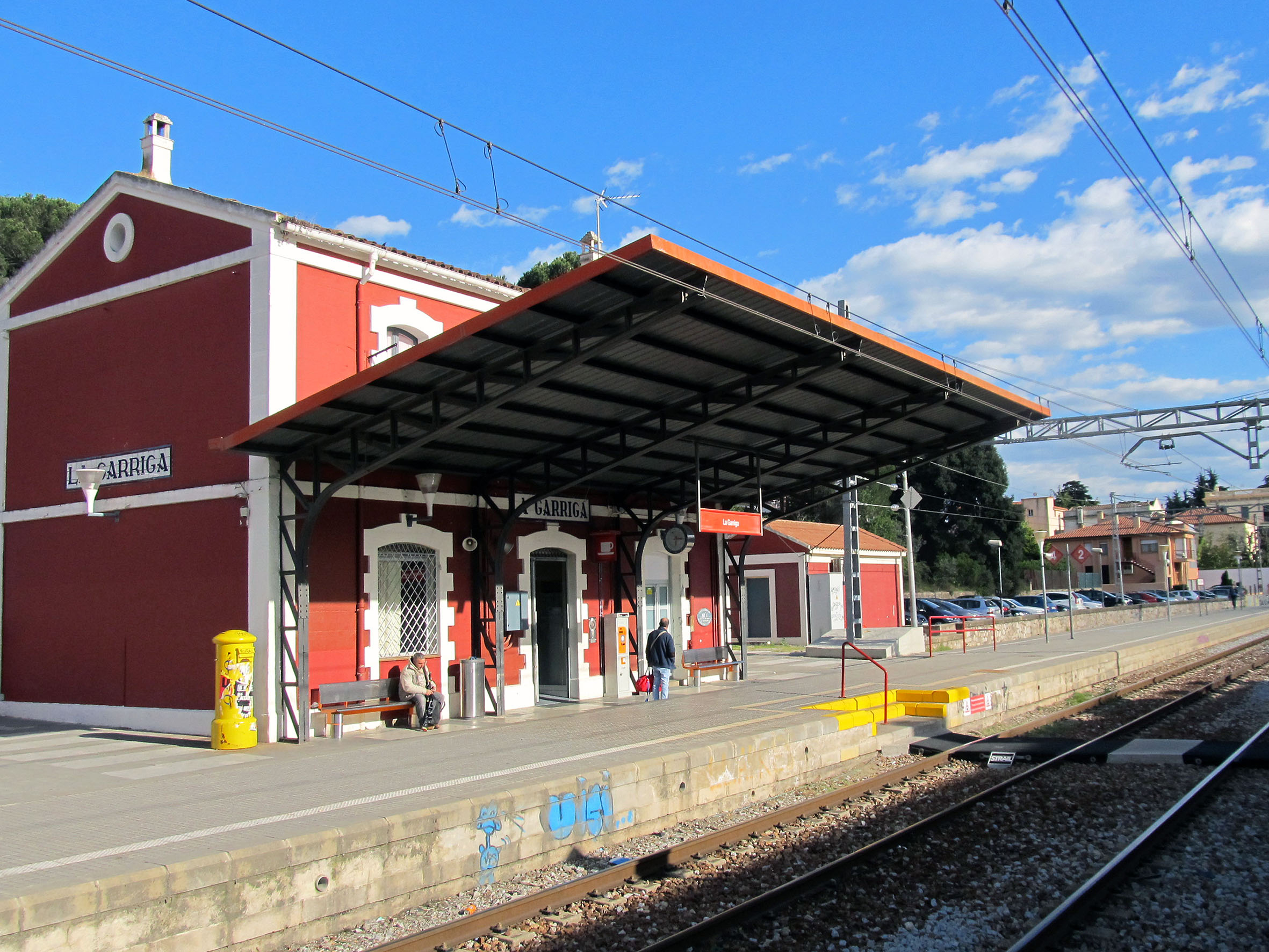 La Garriga train station (april 2013)